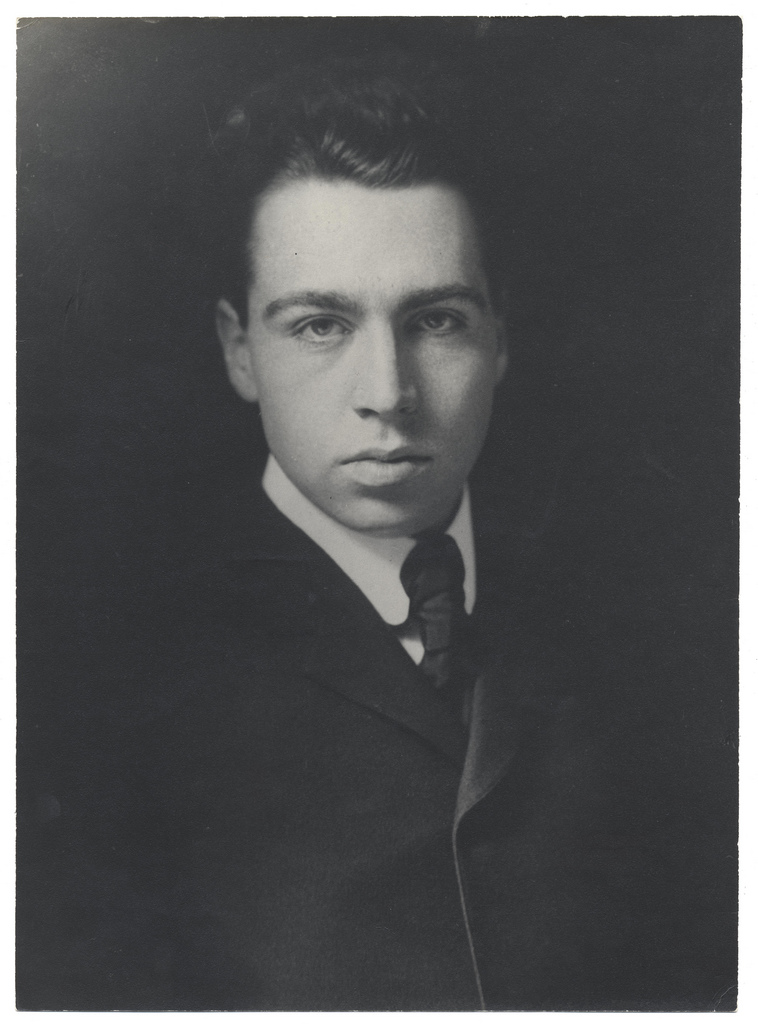 Walter Pach circa 1903 Description: Portrait of Pach in a suit. Identification on accompanying label (typewritten): Walter Pach (1883-1958). Pach's position in the history of American art rests strongly on his writings. He took up vigorously the defense of the new painters in Europe, Cezanne, Renoir, and Matisse. He traveled with Walt Kuhn looking for pictures for the Armory Show of 1913. Pach, Walter, 1883-1958 Creator/Photographer: Unidentified photographer Medium: Black and white photographic print Dimensions: 34 cm x 25 cm Date: c. 1903 Persistent URL: Repository: Archives of American Art Native nameArchives of American ArtParent institutionSmithsonian Institution LocationWashington, D.C.Coordinates38° 53′ 52.44″ N, 77° 01′ 21.72″ W Established1954 Web page control : Q2860568 VIAF: 151134814 ISNI: 0000 0004 5897 2996 LCCN: n79065944 NLA: 35007823 GND: 1023549-8 WorldCat institution QS:P195,Q2860568 Collection: 1913 Armory Show, 50th anniversary exhibition records, 1962-1963 Accession number: aaa_munswilp_4924